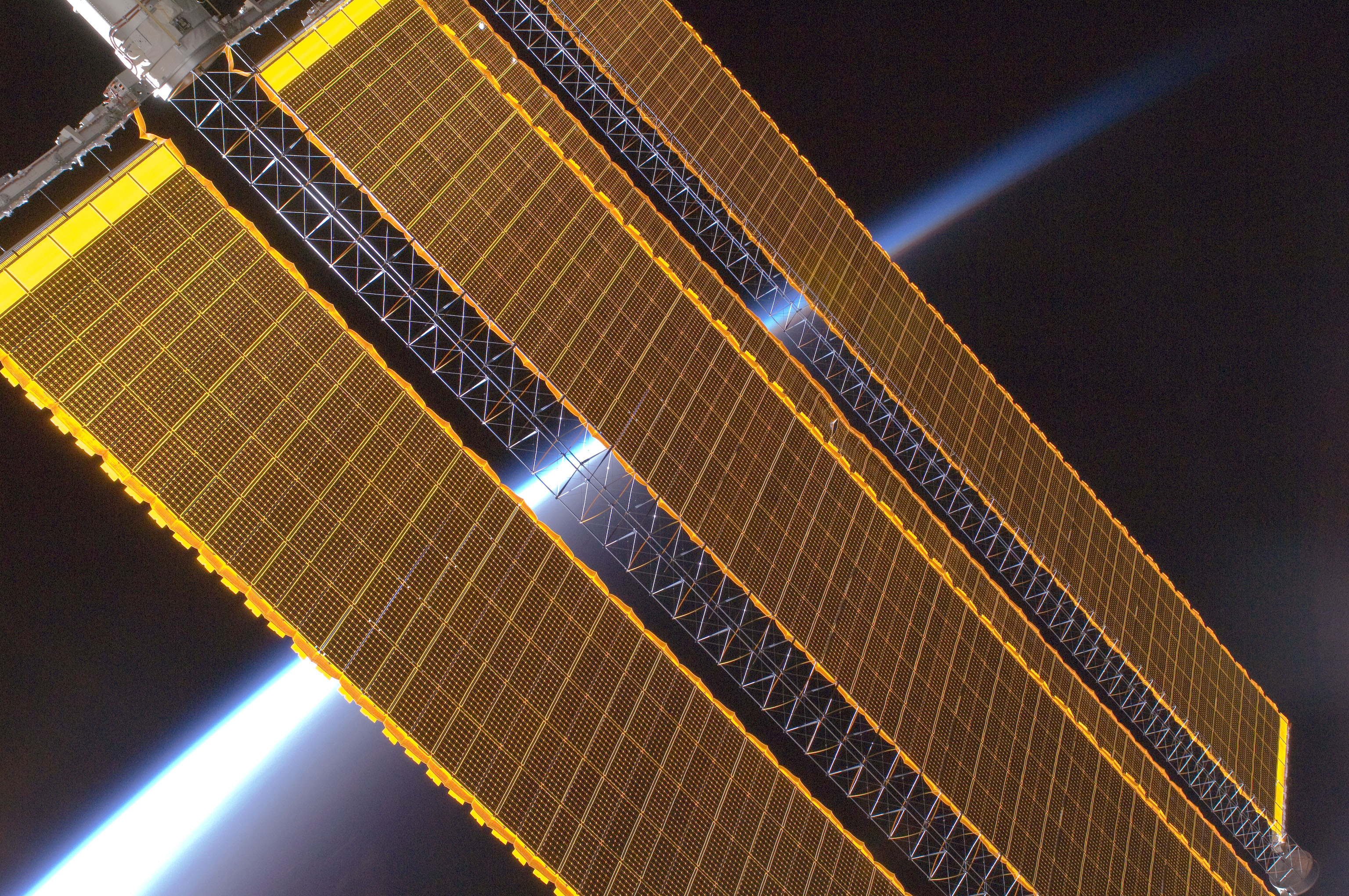 Earth's horizon and the International Space Station's solar array panels are featured in this image photographed by the Expedition 17 crew in August 2008.